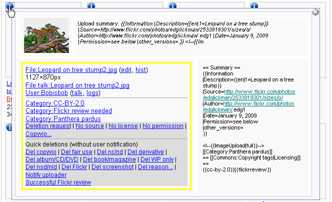 Screenshot showing a file information popup of the alternate view of MediaWiki:Gadget-GalleryDetails.js